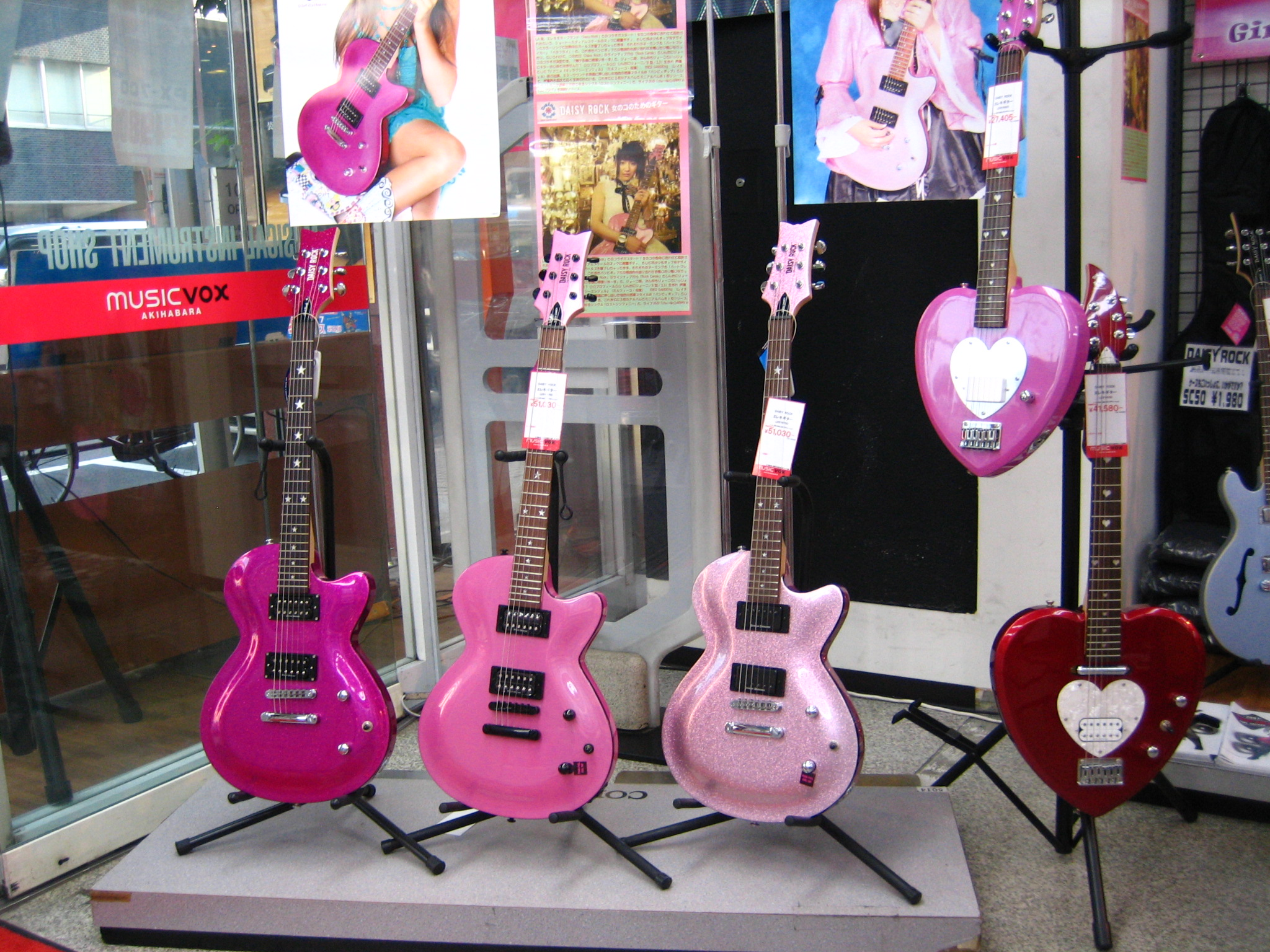 Daisy Rock Girl Guitars Daisy Rock Rock Candy ×3 Daisy Rock Heartbraker Pink Heart & Red Hot Red Daisy Rock Stardust Retro-H Ice Blue Rosa, rosa, rosa...